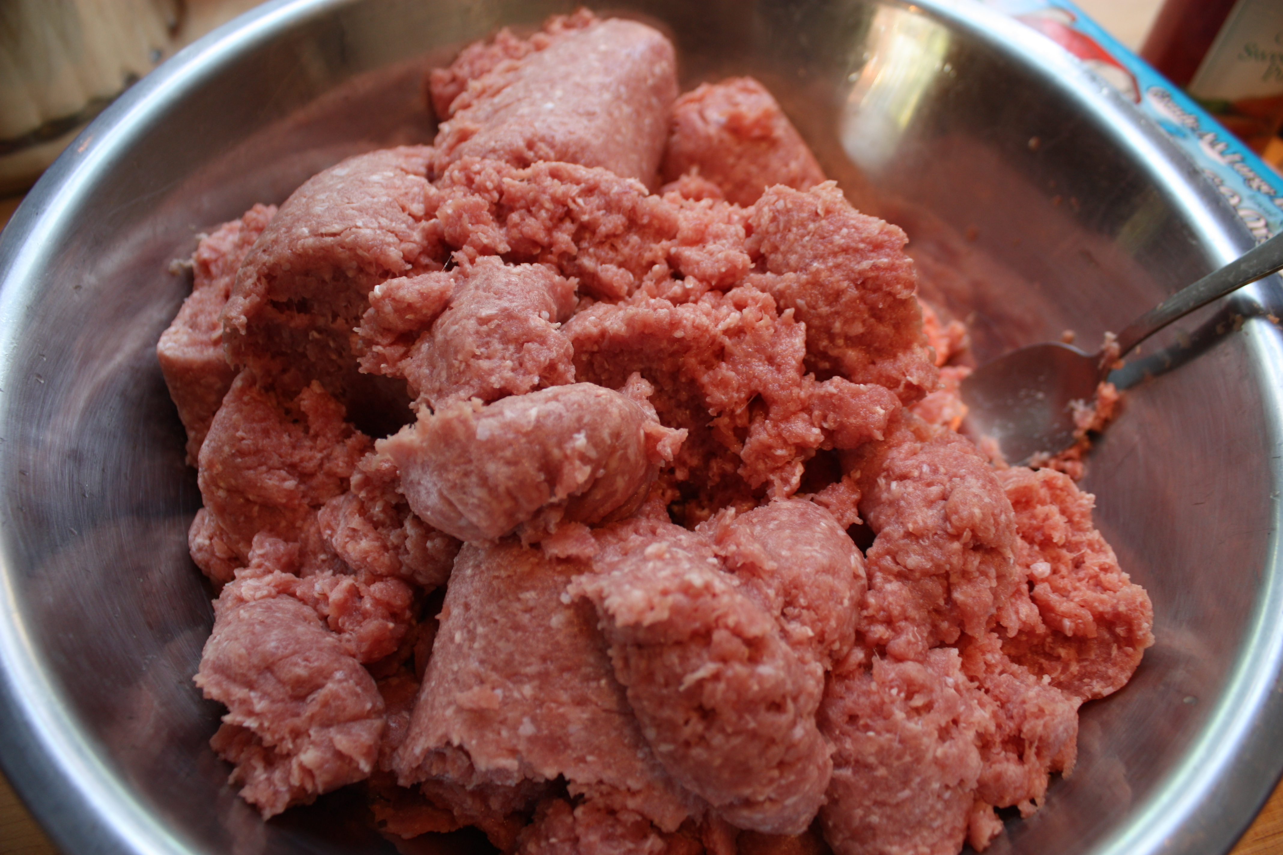 making cat food